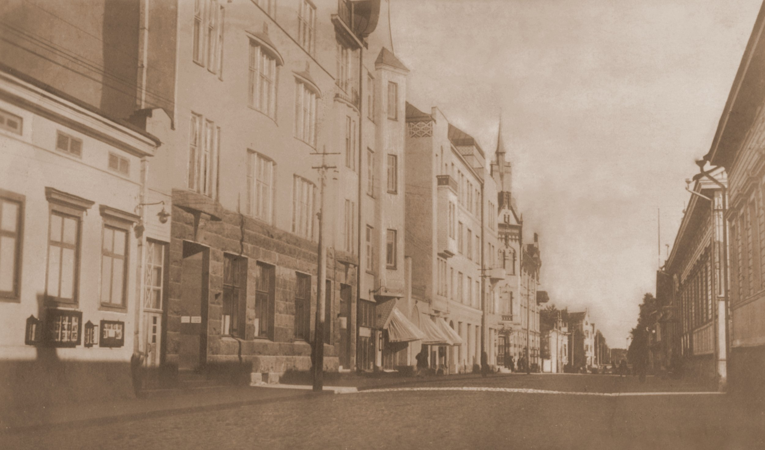 Kirkkokatu street in Oulu in 1921.